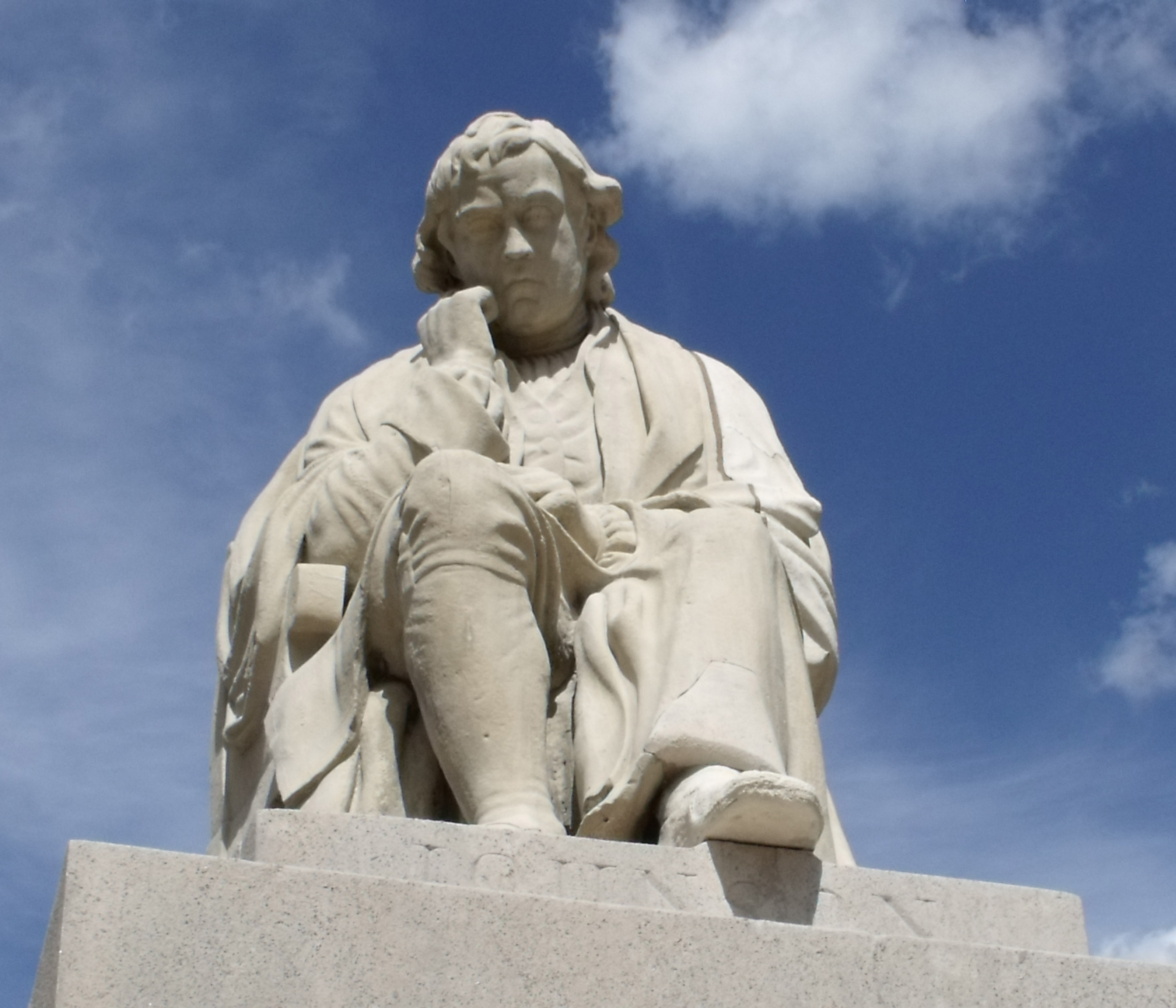 Statue of Dr Samuel Johnson in Lichfield Market Square, presented to the people of Lichfield in August 1838 by James Thomas Law, Chancellor of the Diocese. Dr Johnson was famous for writing the first English Dictionary. Samuel Johnson September 2009 is the 300th anniversary of Dr Johnson's birth. The statue is Grade II* listed. Statue of Dr Samuel Johnson. 1938. By Richard Cockle Lucas. Ashlar. Seated statue on plinth. Plinth has torus moulding to base; 3 sides with reliefs illustrating scenes from Johnson's life, influenced by Donatello's Schiacciato Relief (Pevsner p194); rear panel has inscription commemorating the gift of the statue by Dr James Thomas Law, Chancellor of the Diocese, with later plaque commemorating the 200th anniversary of Johnson's death. Seated figure of Johnson in academic robes, deep in thought, on a Greek Revival chair with books beneath. Dr Johnson, 1709-84, writer and critic, edited the dictionary for which he is chiefly remembered, one of the 2 great landmarks in the history of English dictionaries. (Buildings of England: Pevsner N: Staffordshire: London: 1974-: P.194; Drabble M: The Oxford Companion to English Literature: Oxford: 1985-: P.274, 513-5). Dr Johnson Statue, Lichfield - note: I think the listing text got the date of when it was wrong by about 100 years. They say 1938, it is was from 1838.